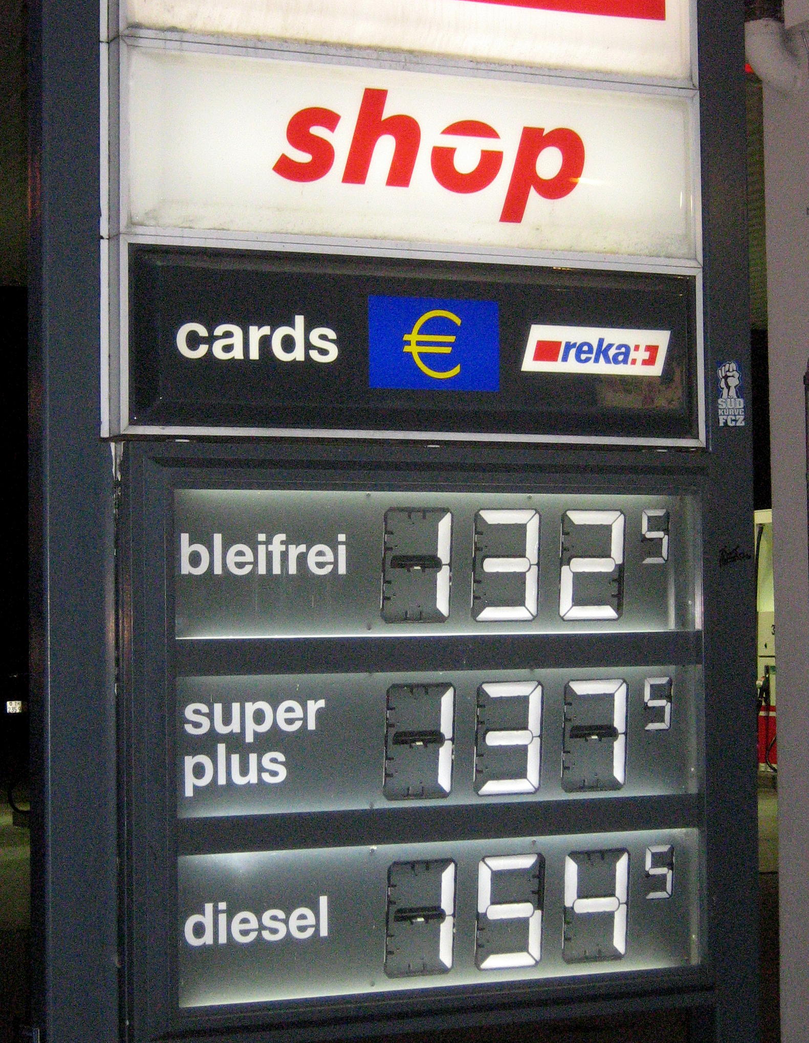 The price board of a Zurich petrol station. Note the Euro symbol: despite Switzerland's national currency being the Swiss Franc, many shops in Switzerland accept the Euro since every country sharing a border with Switzerland uses the Euro.